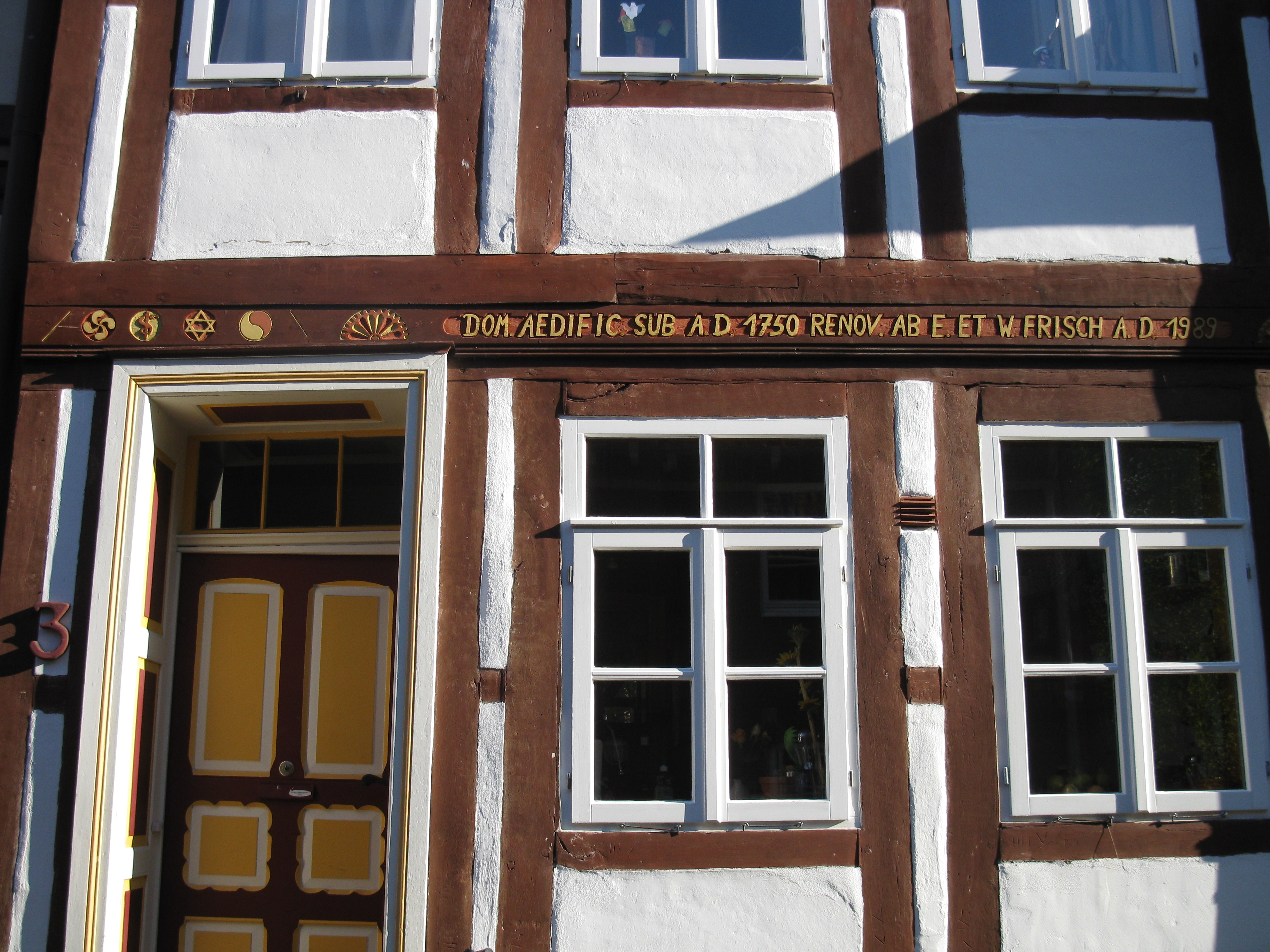 Wood carvings on a Jewish house in Hildesheim